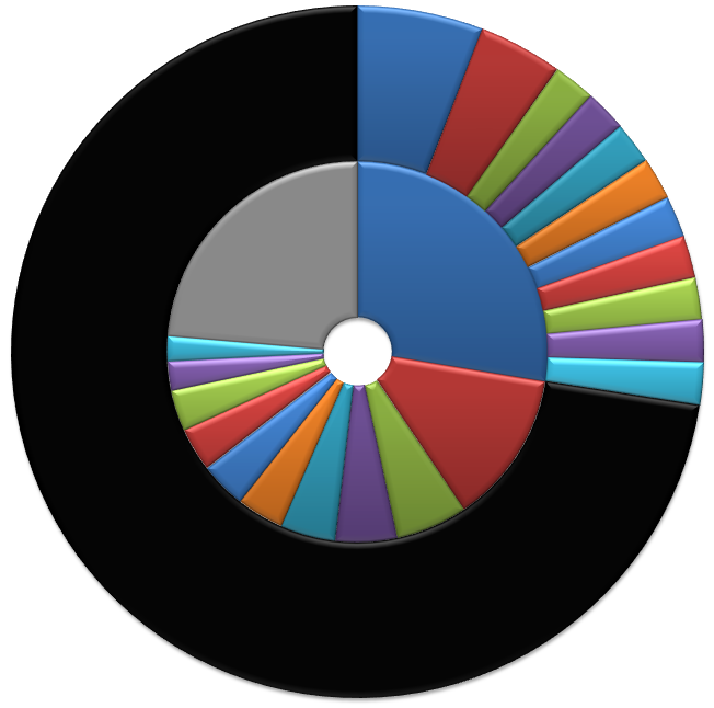 Result of the 2001 Philippine House of Representatives party-list election. Proportion of votes (inner ring) as compared to proportion of seats (outer ring) of the political parties.